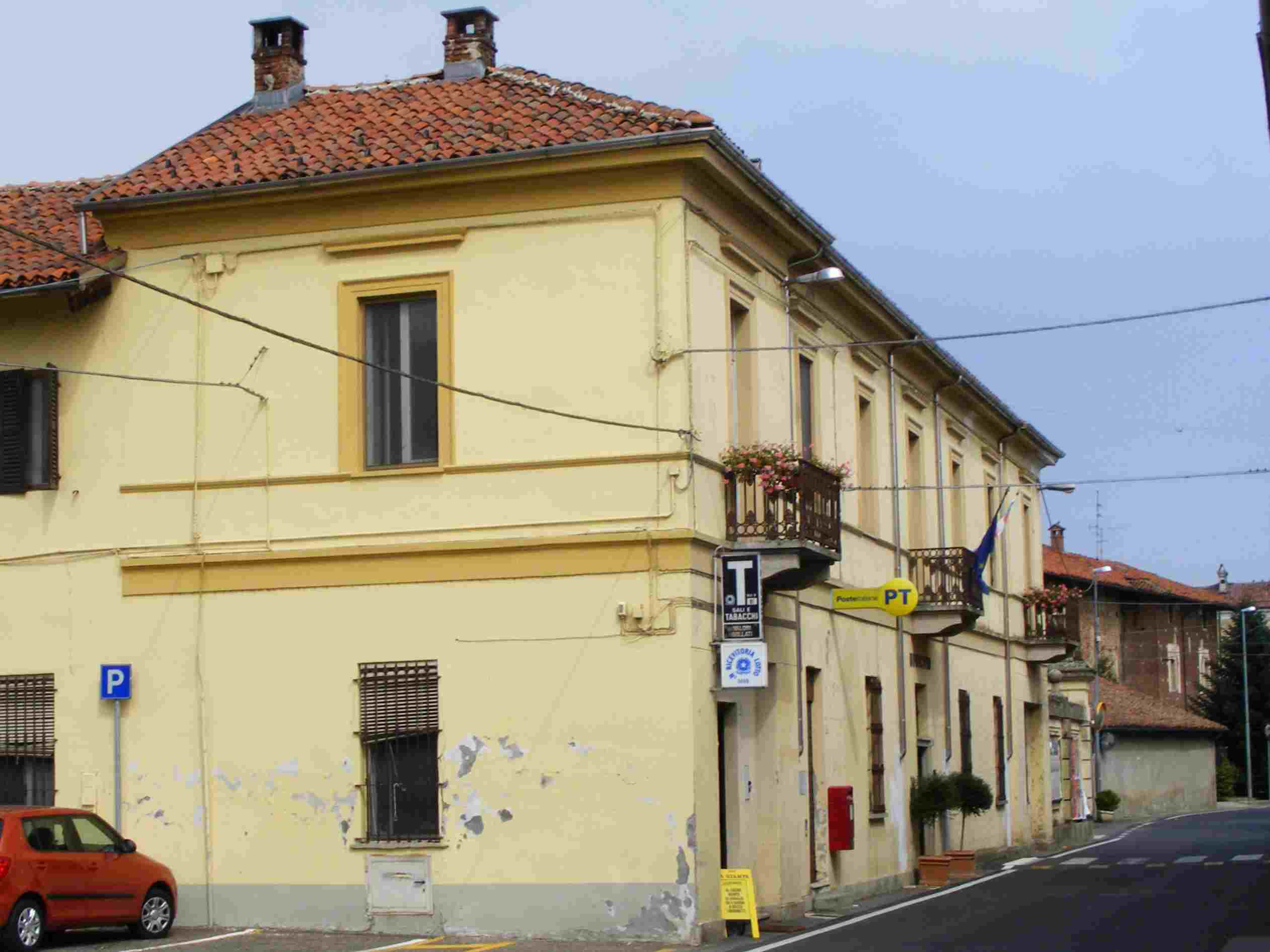 Casanova Elvo (VC, Italy): town hall